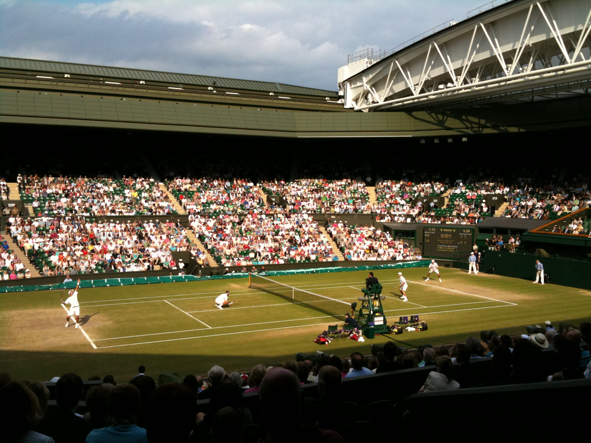 Wimbledon Gentlemen's Doubles Final 2011 - Centre Court – Bob Bryan (USA) and Mike Bryan (USA) defeat Robert Lindstedt (SWE) and Horia Tecau (ROU)